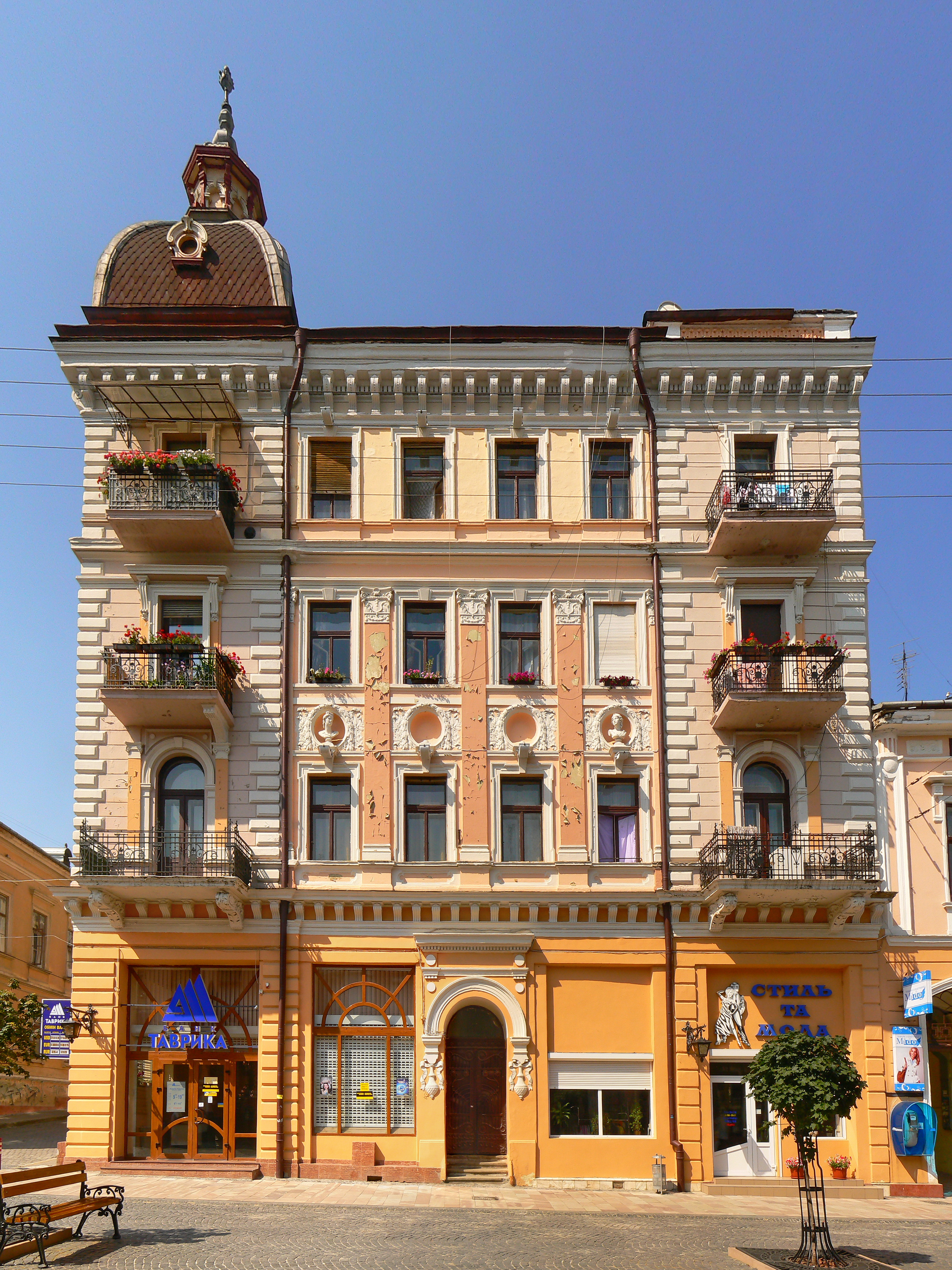 Кобилянської, 26